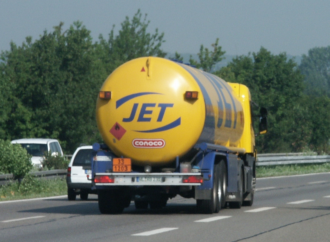 Jet/Conoco semitrailer train in Germany. Probably empty or almost empty, since the front axle of the semi is lifted. The orange hazmat board showing 33/1203 tells the trailer contains petrol.